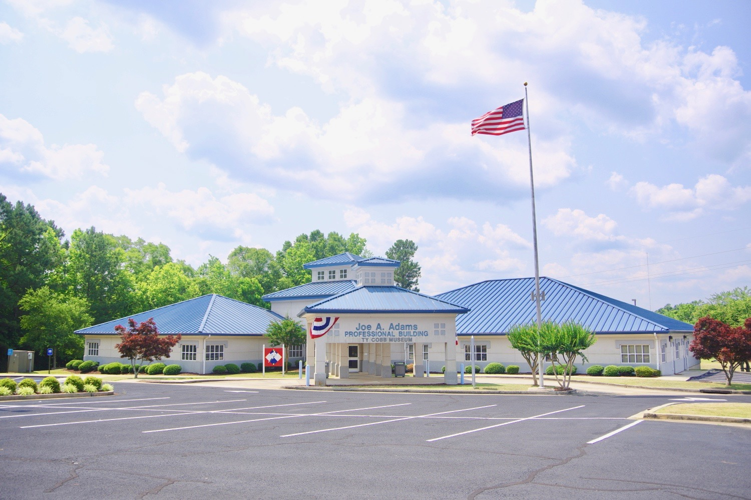 Ty Cobb Museum (Joe A. Adams Professional Building) in Royston, Georgia, United States.